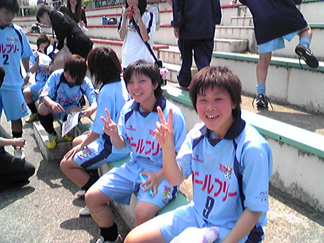 Natsuki Oyama (right) and Juri Watanabe (center), players of Bunnys Kyoto SC, after the league match (L-league Second division 2 vs. Ohara Gakuen JaSRA LSC) on April 19, 2009